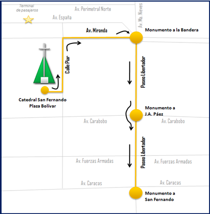 Recorrido